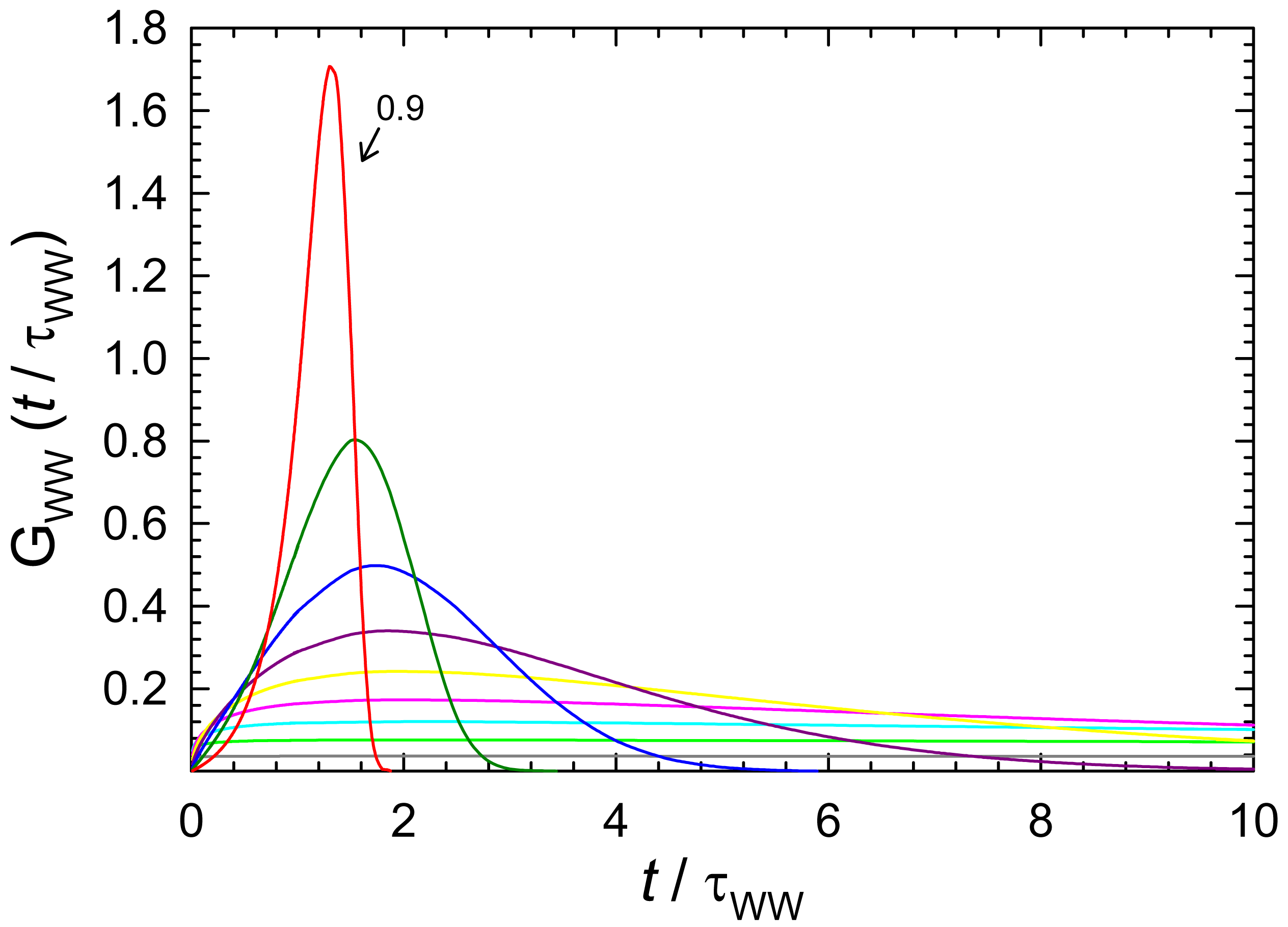 Plot of the Kohlrausch-Williams-Watts distribution function